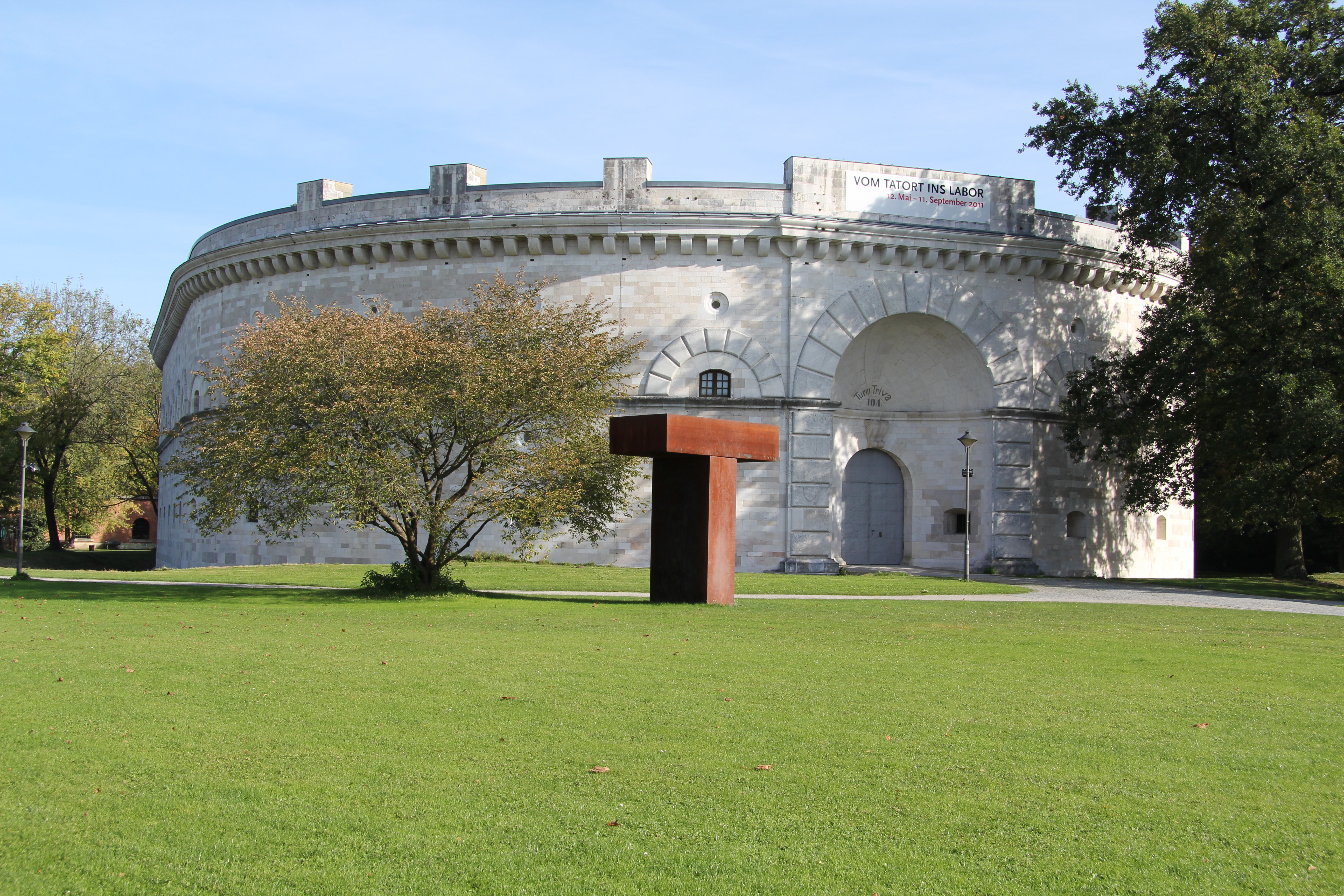 Ingolstadt, tower Triva in Klenzepark